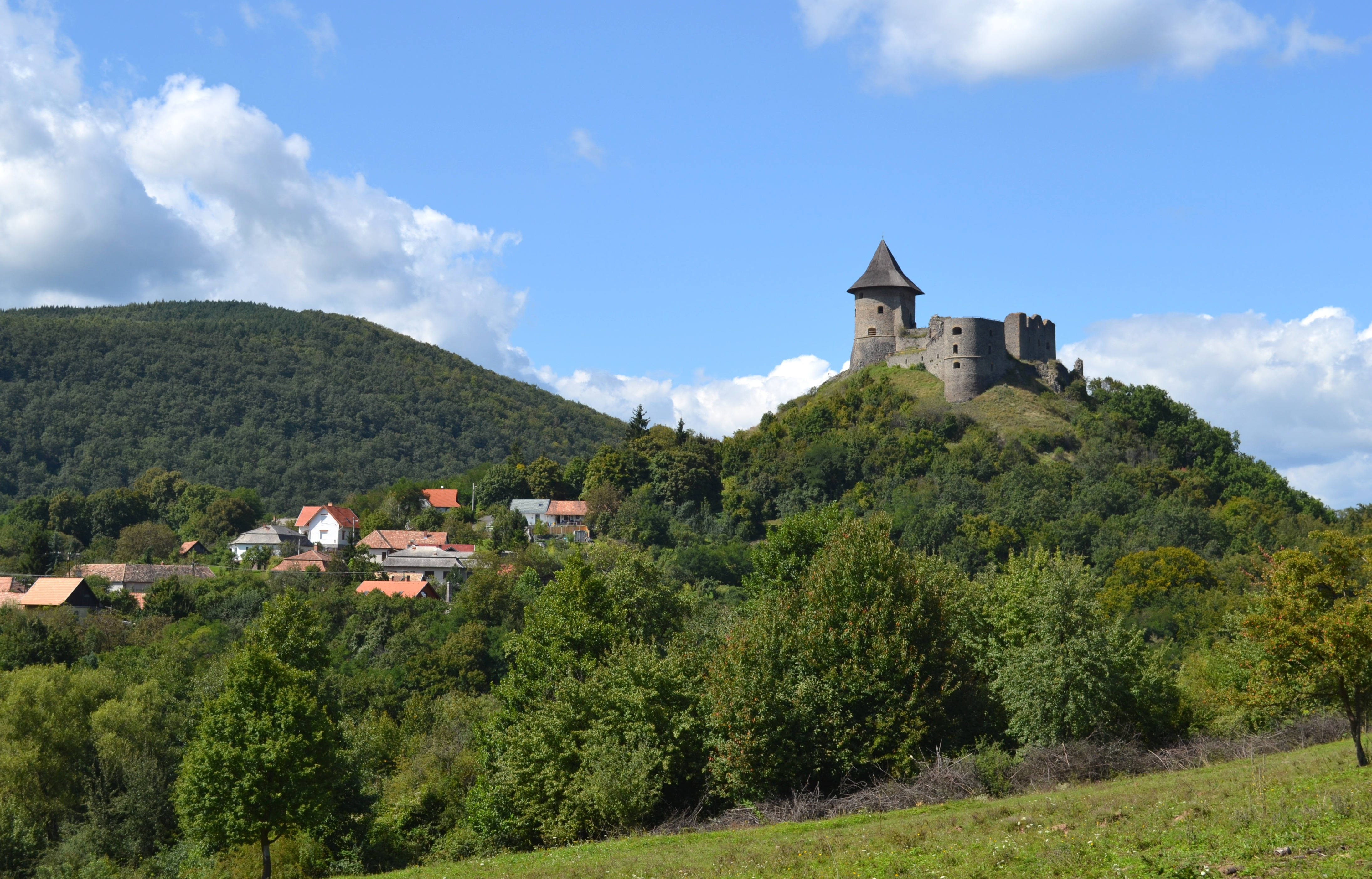 The Šomoška Castle In the administrative territory of the village Šiatorská Bukovinka, in immediate vicinity of the Slovak-Hungarian frontier can one observe traces of the past volcanic activity in form of a huge basalt rock with one of the most picturesque Slovak castle on top of it. It is the Šomoška Castle, unique among the Slovak castles as it is built of unconventional hexagonal basalt pillars.